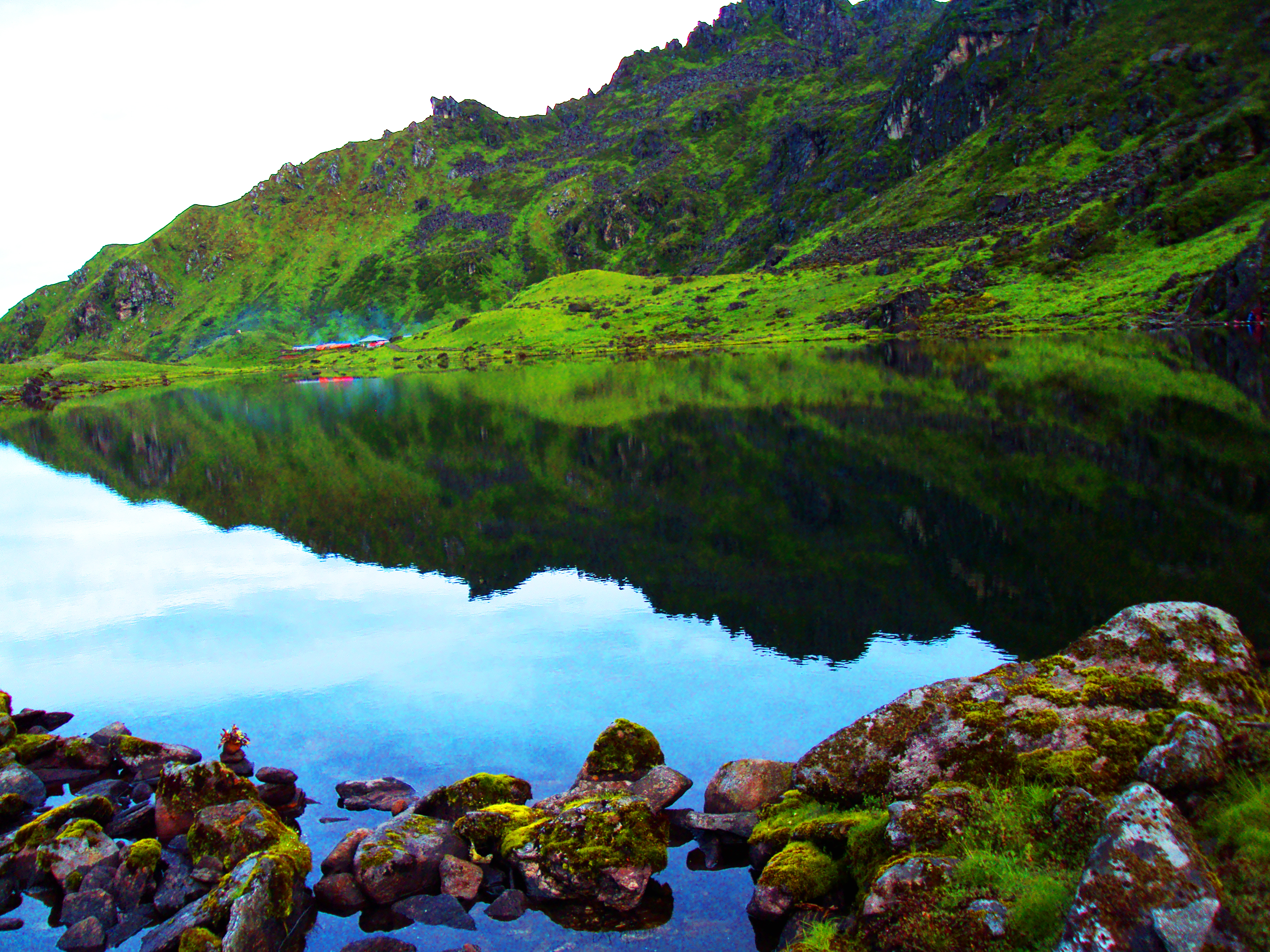 A view of Panch Pokhari Area